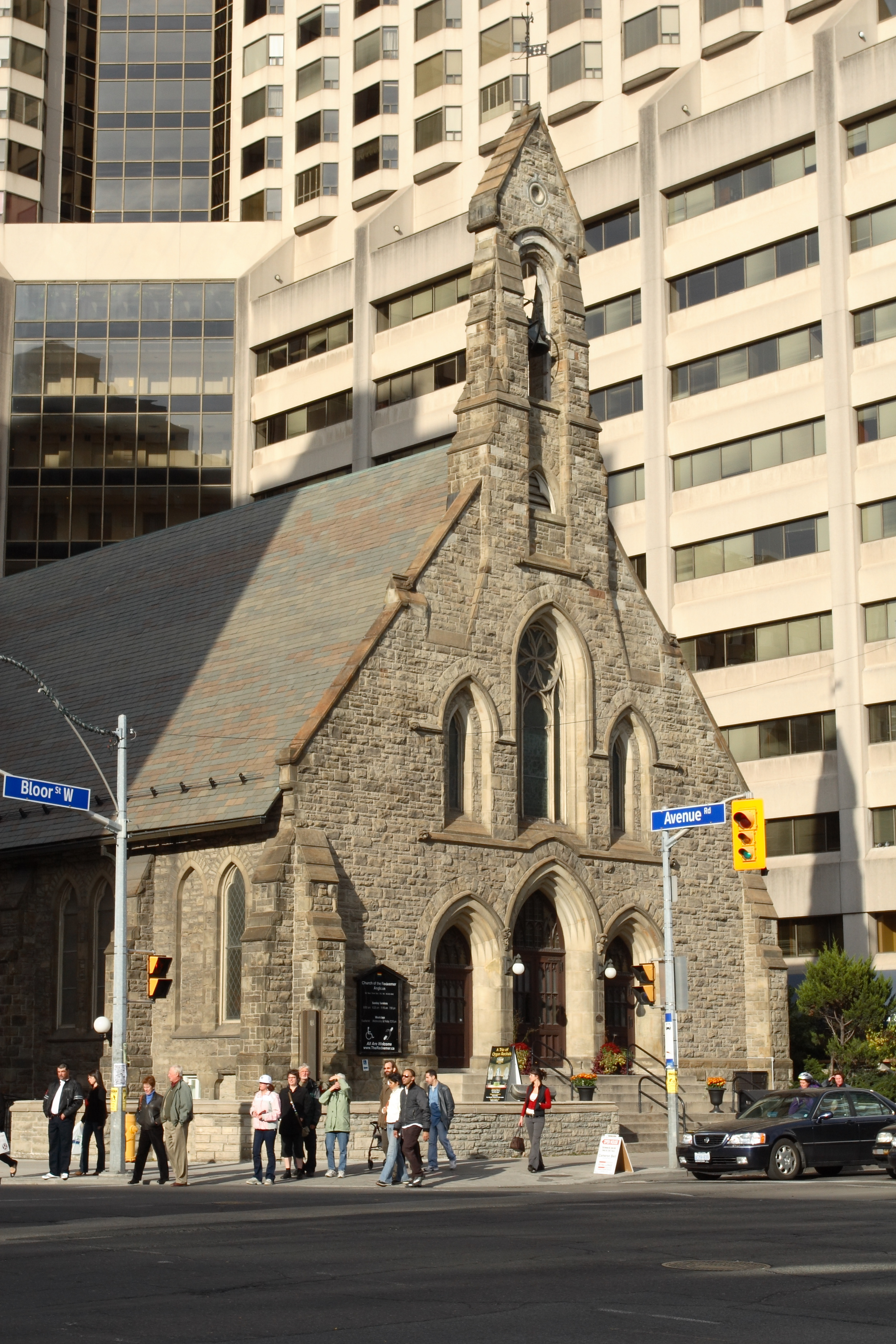 The northeast corner of Bloor St and Avenue Road